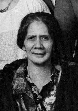 Makea Karika Takau Ariki in 1934 (Rarotonga Delegation to 1934 Waitangi Celebration - New Zealand).